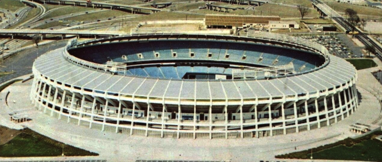 An aerial view of Atlanta–Fulton County Stadium, pictured from circa late 1960's/early 1970's.